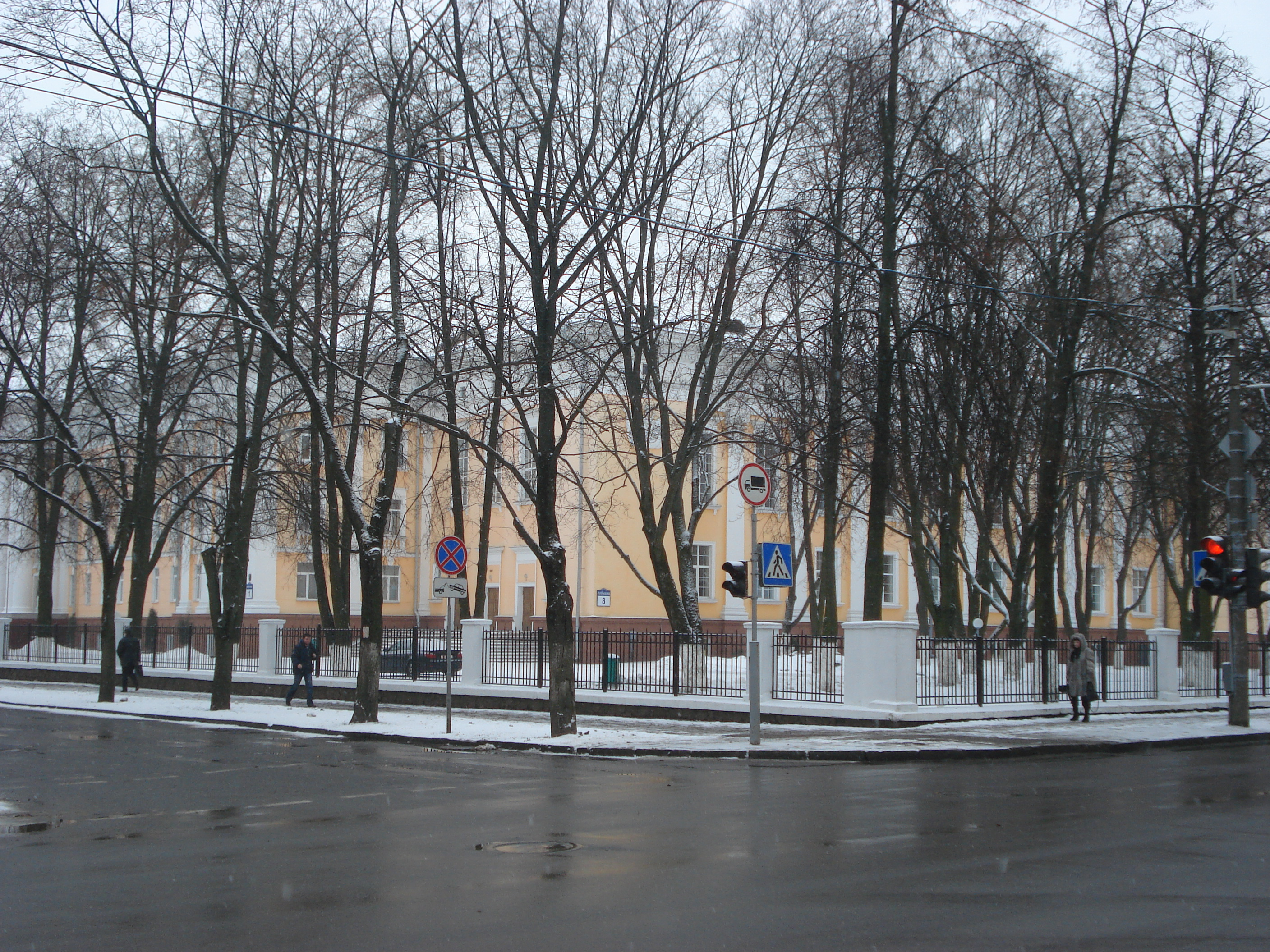 Department of Defense, Minsk